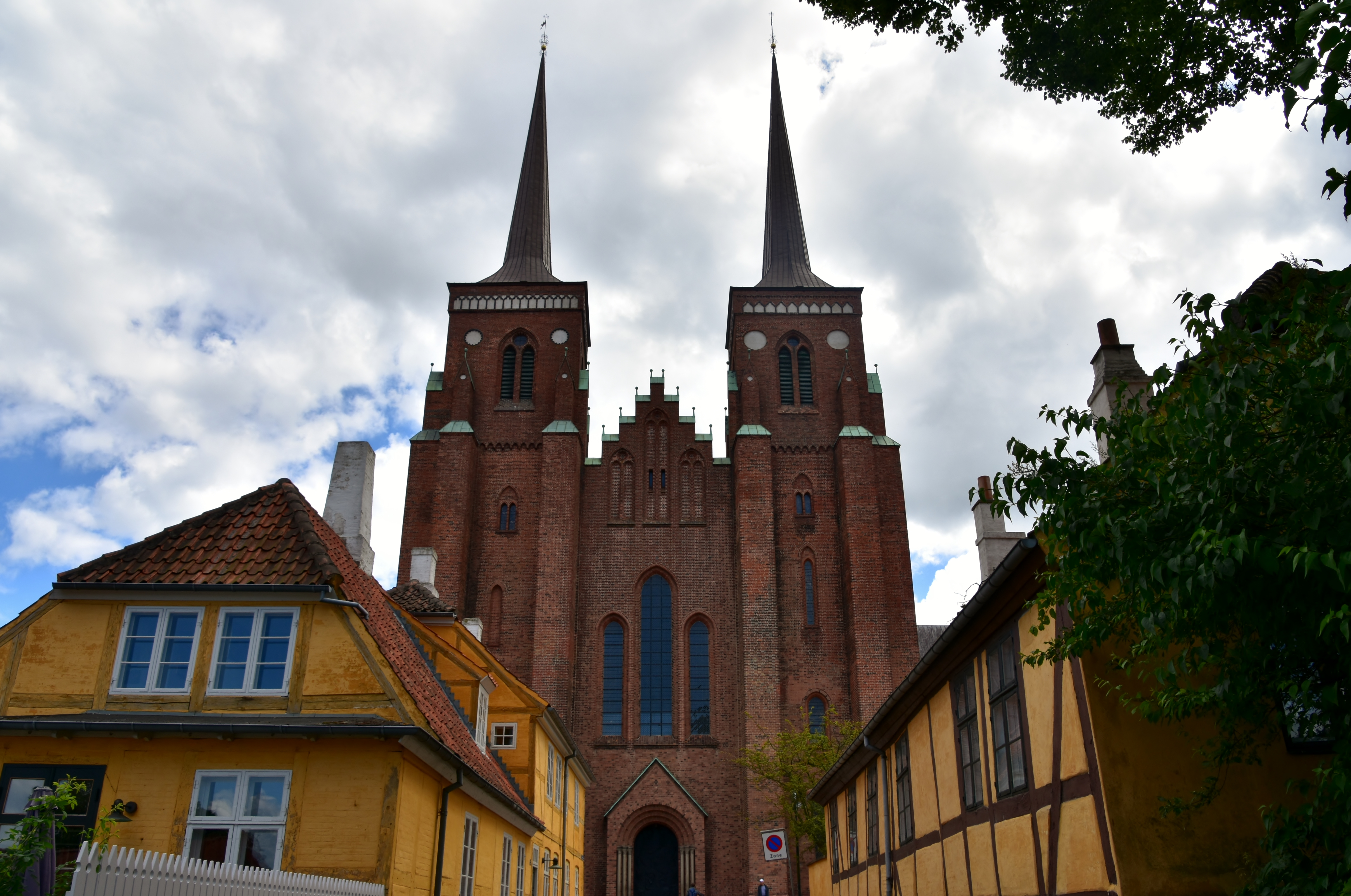 Roskilde Cathedral, begun in the 1170s (11)